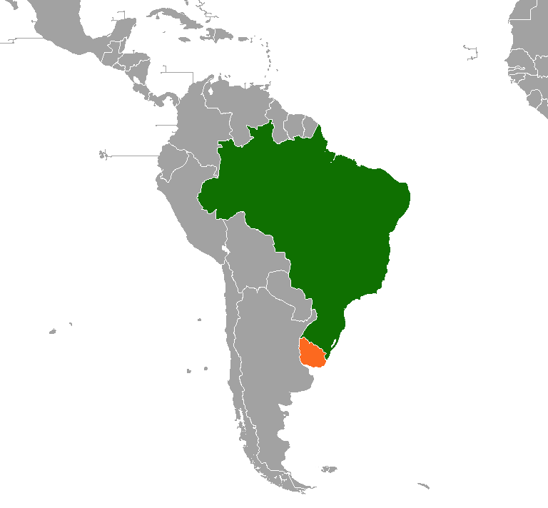 World map: Brazil-Uruguay (location) Brazil Uruguay